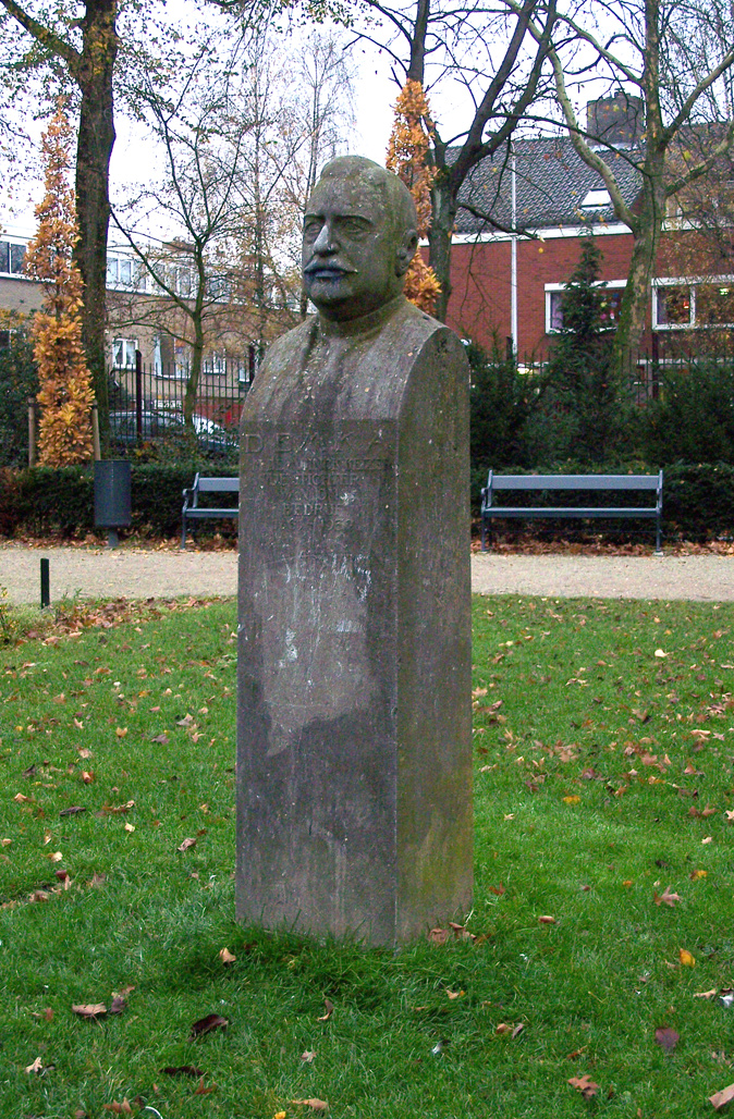 Bust of J. M. De Muinck Keizer, "founder" of the former Dutch steel factory DEMKA in Utrecht. This statue used to be on factoryground until the factory went downhill. It then was placed in the centre of, what used to be, the village in which a lot of former employees of DEMKA lived. Because the statue was molested, it was removed again. Until it was placed in the Julianapark several years later.It was made by Ludwig Oswald Wenckebach.